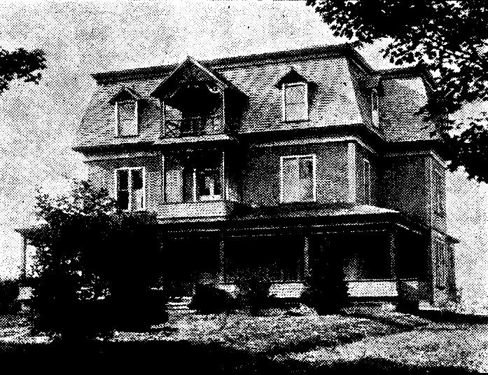 Picture of Knowlton Sanitarium. Picture is part of report of the facility's dedication as a Seventh-day Adventist institution.